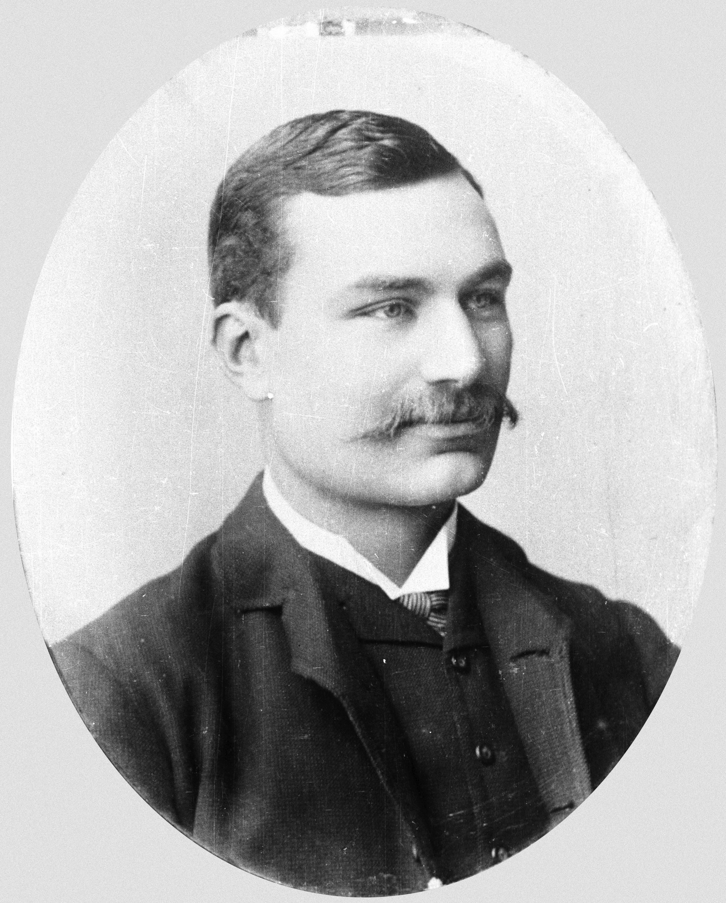 Arthur Edgar Gravenor Rhodes, circa 1887. Photograph taken by William Henshaw Clarke.